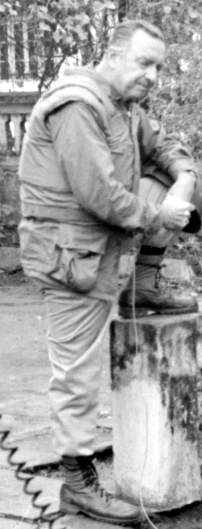 U.S. television journalist Walter Cronkite in Vietnam, interviewing Professor Mai of the University of Hue for CBS (Cropped)